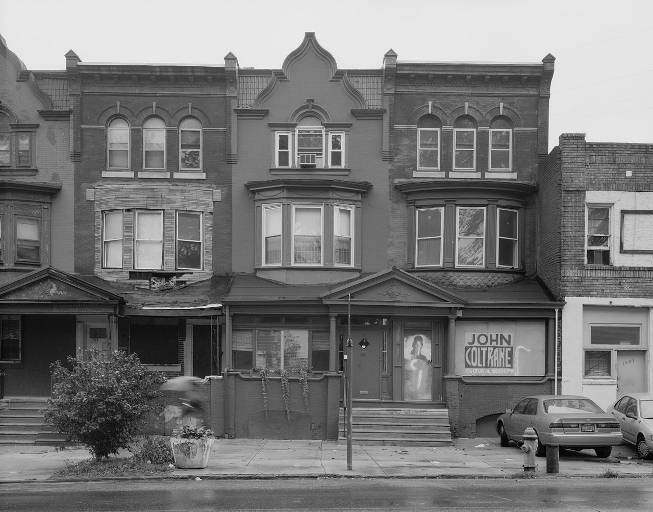 John Coltrane House, 1511 North Thirty-third Street, Philadelphia, Philadelphia County, PA